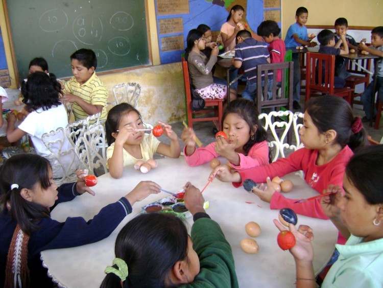 Activity